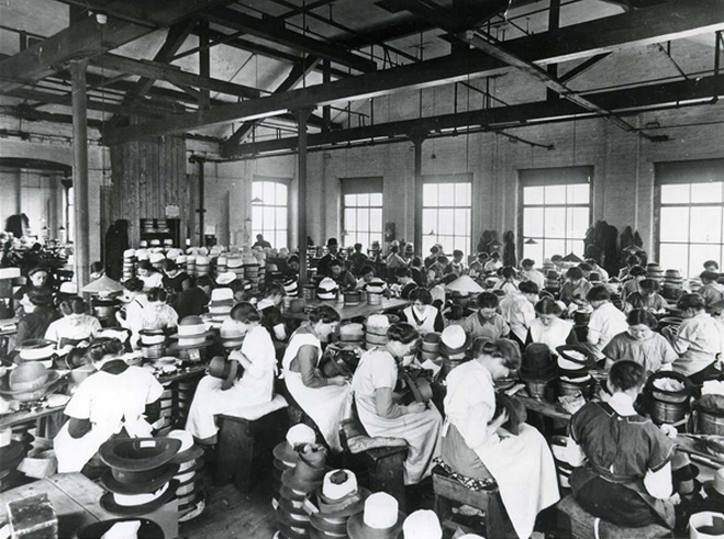 Hatters at Battersby Hat Works, Offerton